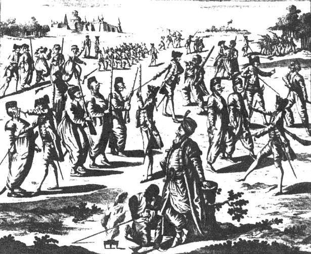 Caricature_of_the_1783_French_Military_Mission_in_Istambul.